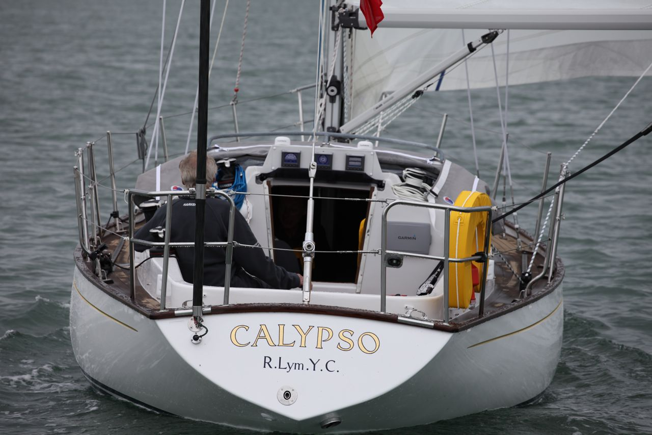 Contessa 32 sailing